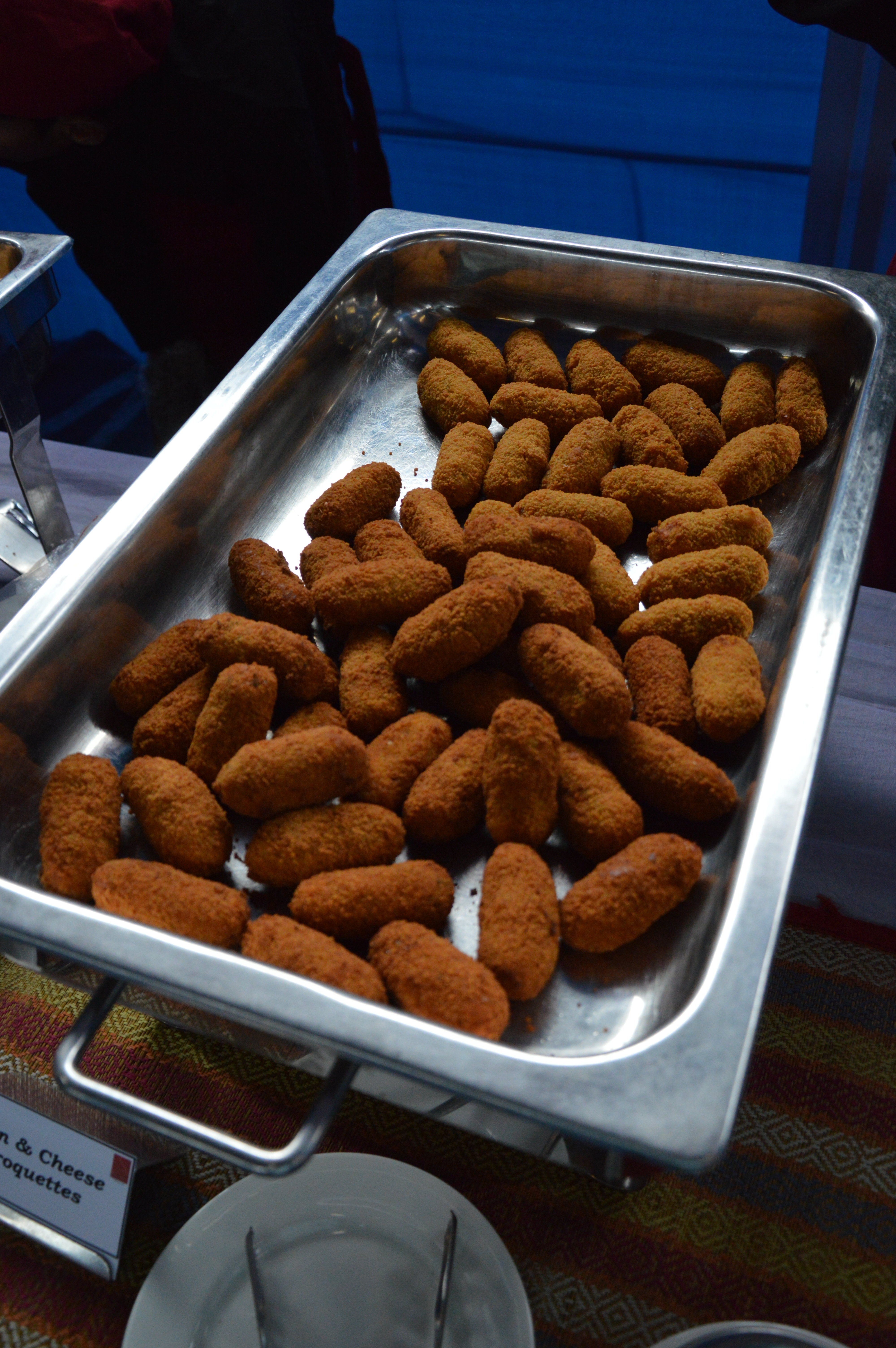 Photographed in West Bengal